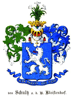 Coat of arms of Schultz family.